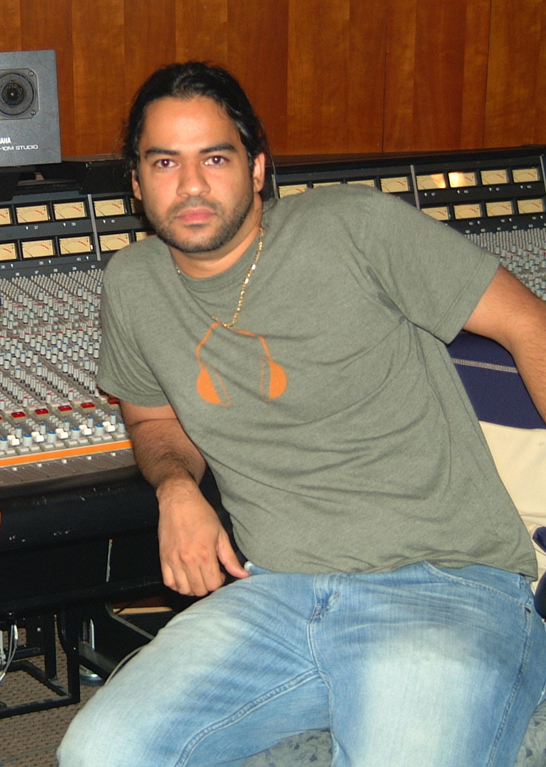 DRU CASTRO @ Stonehendge Atlanta,Ga